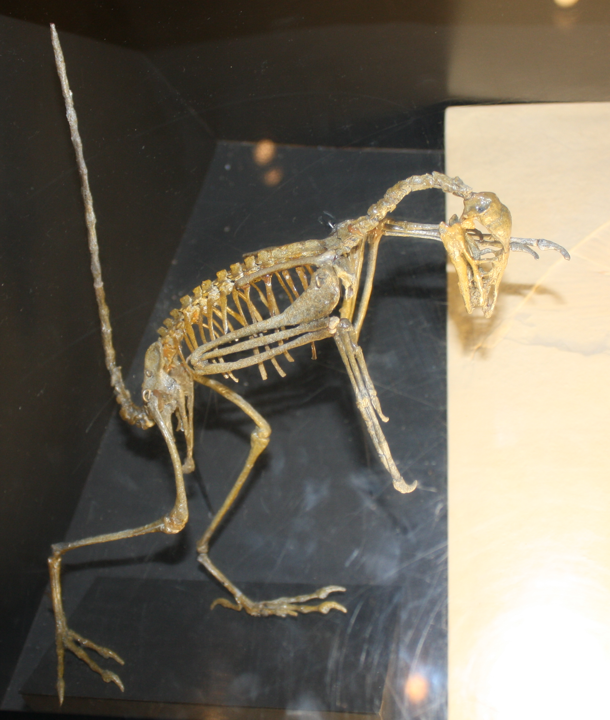 Cast skeleton of primitive bird Archaeopteryx This cast skeleton was produced by Dr. Lary D. Martin of University of Kansas, a leading authority on primitive birds, by pulling molds off casts of most of the Archaeopteryx specimens. The skeleton has been mounted in an arboreal (tree-climbing) posture. Recent research on bird claws shows that claws of Archaeopteryx most closely match the claws of anoreal birds, rather those of ground-living birds. Note the three-clawed wing of Archaeopteryx, a condition not found in living birds. Wikipedia Loves Art at the Houston Museum of Natural Science This photo of item # [1] at the Houston Museum of Natural Science was contributed under the team name "The_Wookies" as part of the Wikipedia Loves Art project in February 2009. Houston Museum of Natural Science The original photograph on Flickr was taken by andytang20—please add a comment to the original Flickr page whenever a use has been made on Wikipedia or another project. Project galleries on Flickr: this institution, this team